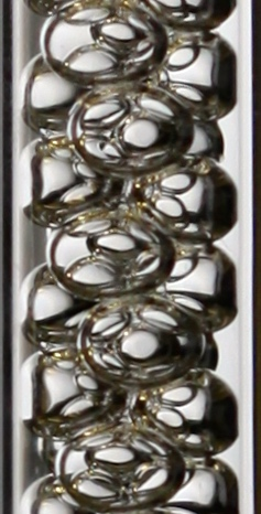 Wet foam assembled in a columnar structure